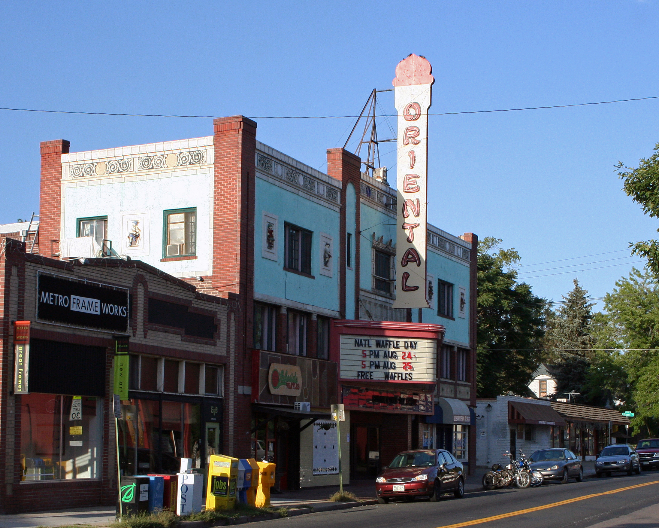 Oriental Theater, located at 4329-39 West 44th Avenue in Denver, Colorado, and listed on the National Register of Historic Places.